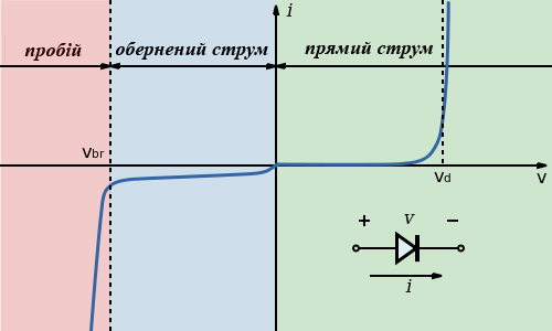 Diode I-V diagram. Includes three main areas of operation: breakdown, reverse-biased, and forward-biased. Vbr denotes the breakdown voltage, and Vd denotes the voltage that is typically considered "on" (conducting current).